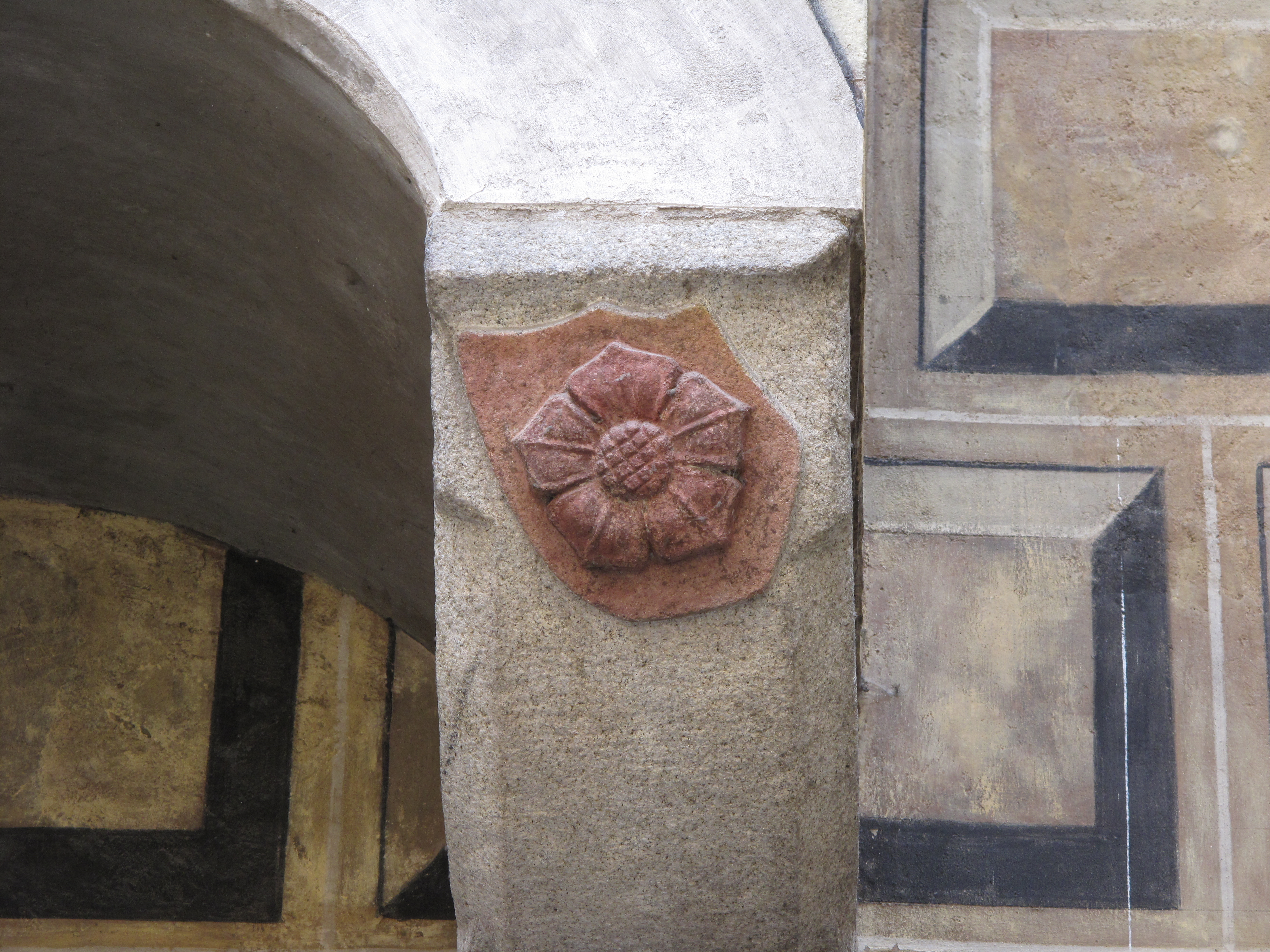 Castle and chateux, Český Krumlov, Czech Republic.